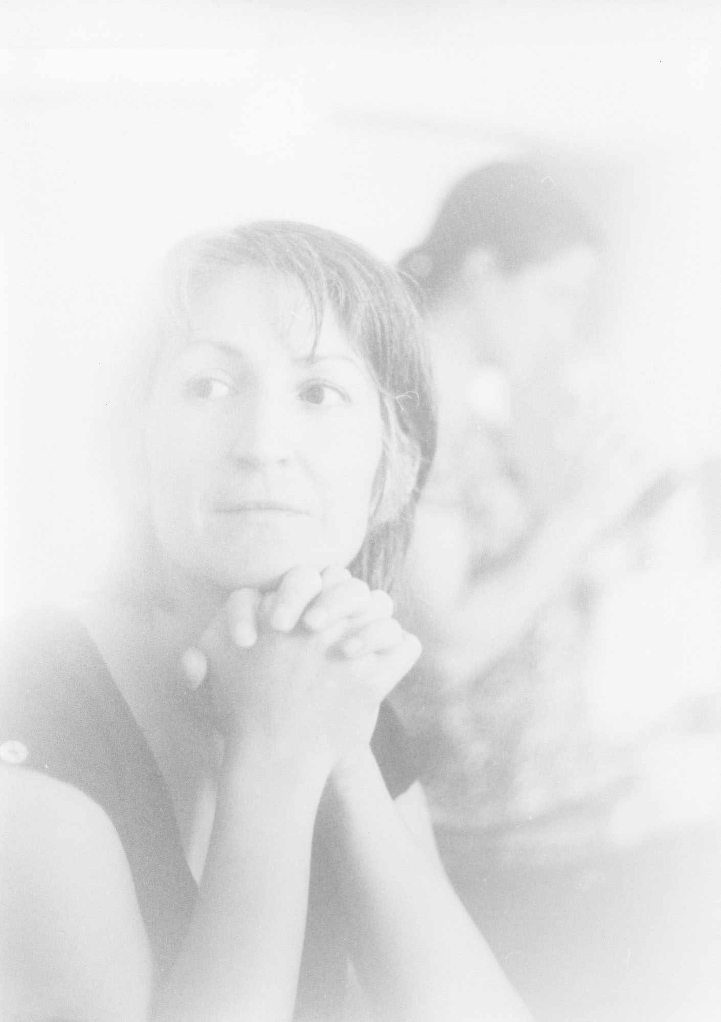 portrait of Kate Polin